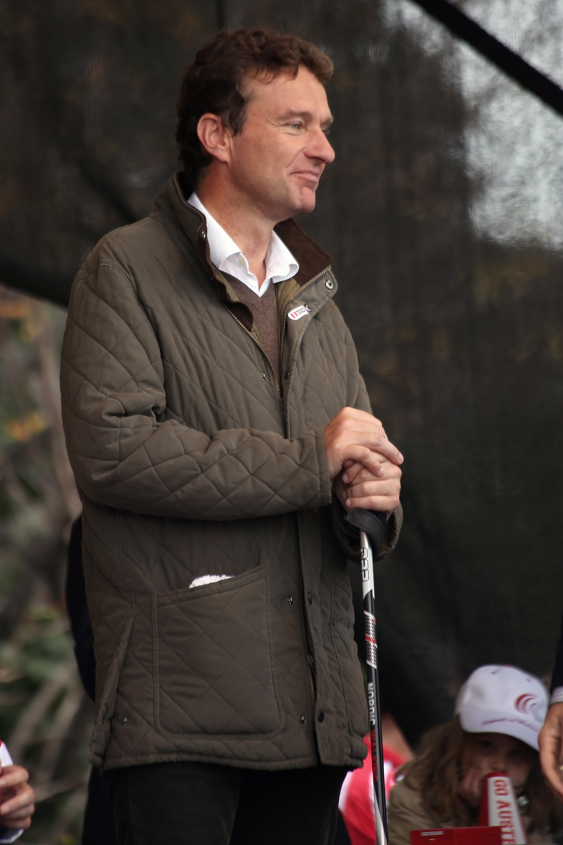 Pepo Puch at the Tag des Sports (Day of Sports) 2013 on Heldenplatz in Vienna, Austria.